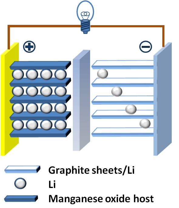 Basic battery charging cell